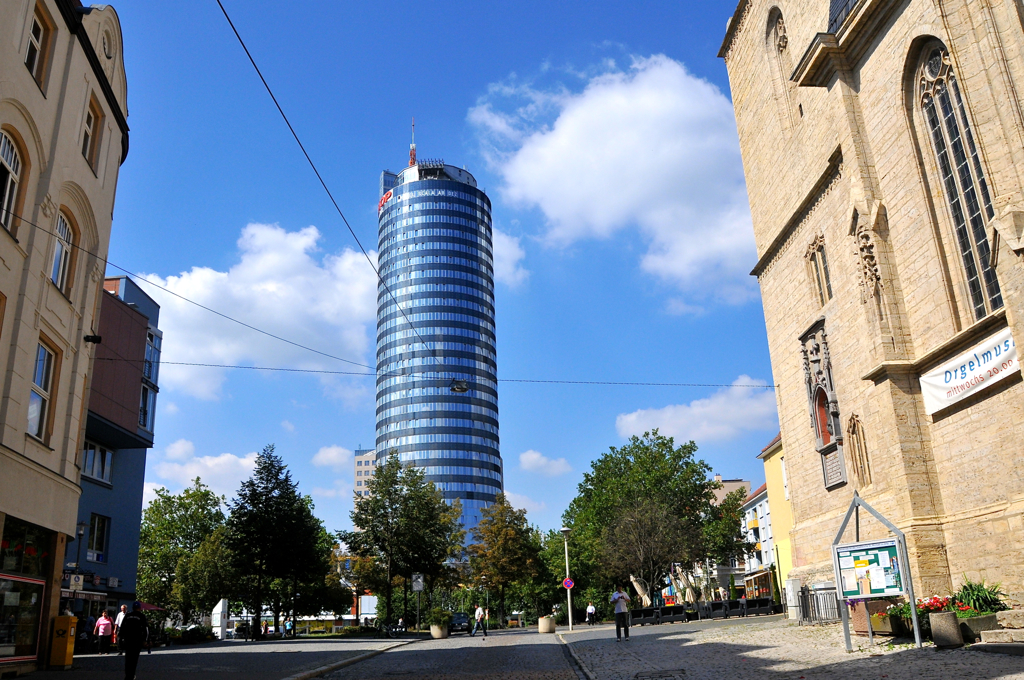 JenTower in Jena, Germany; seen from Kirchplatz